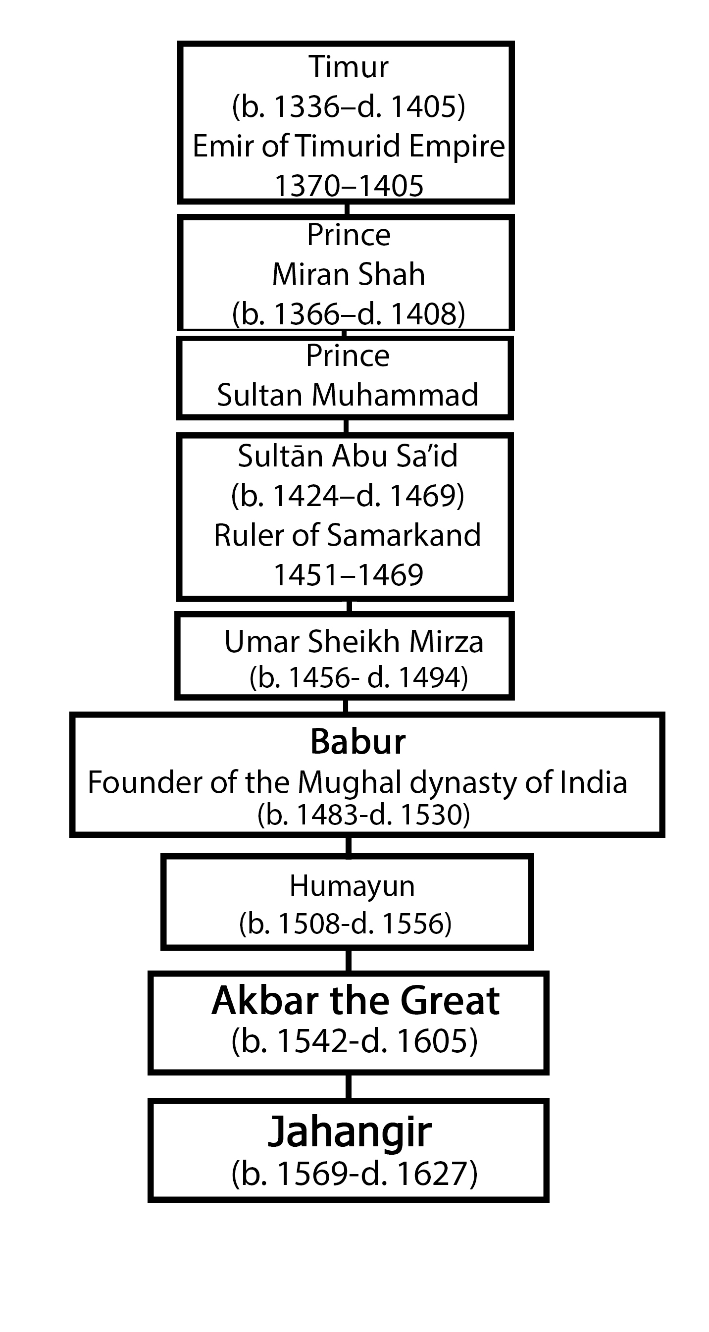 Jahangir's Genealogical Order up to Timur